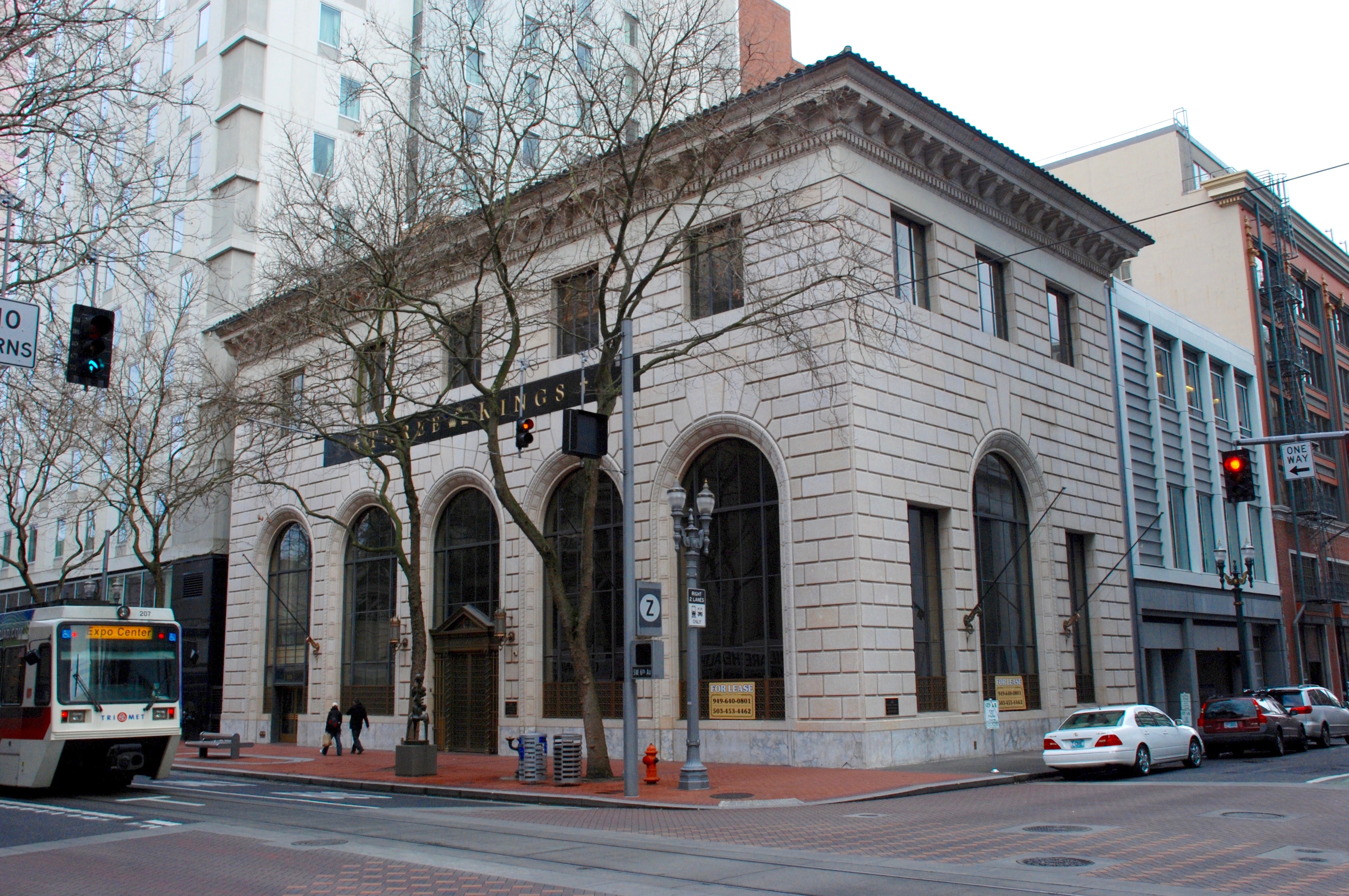 The historic Bank of California Building (built 1924–25), in Portland, Oregon, viewed from the west-southwest (across the intersection of 6th & Stark), with a MAX light rail train on the Yellow Line passing.